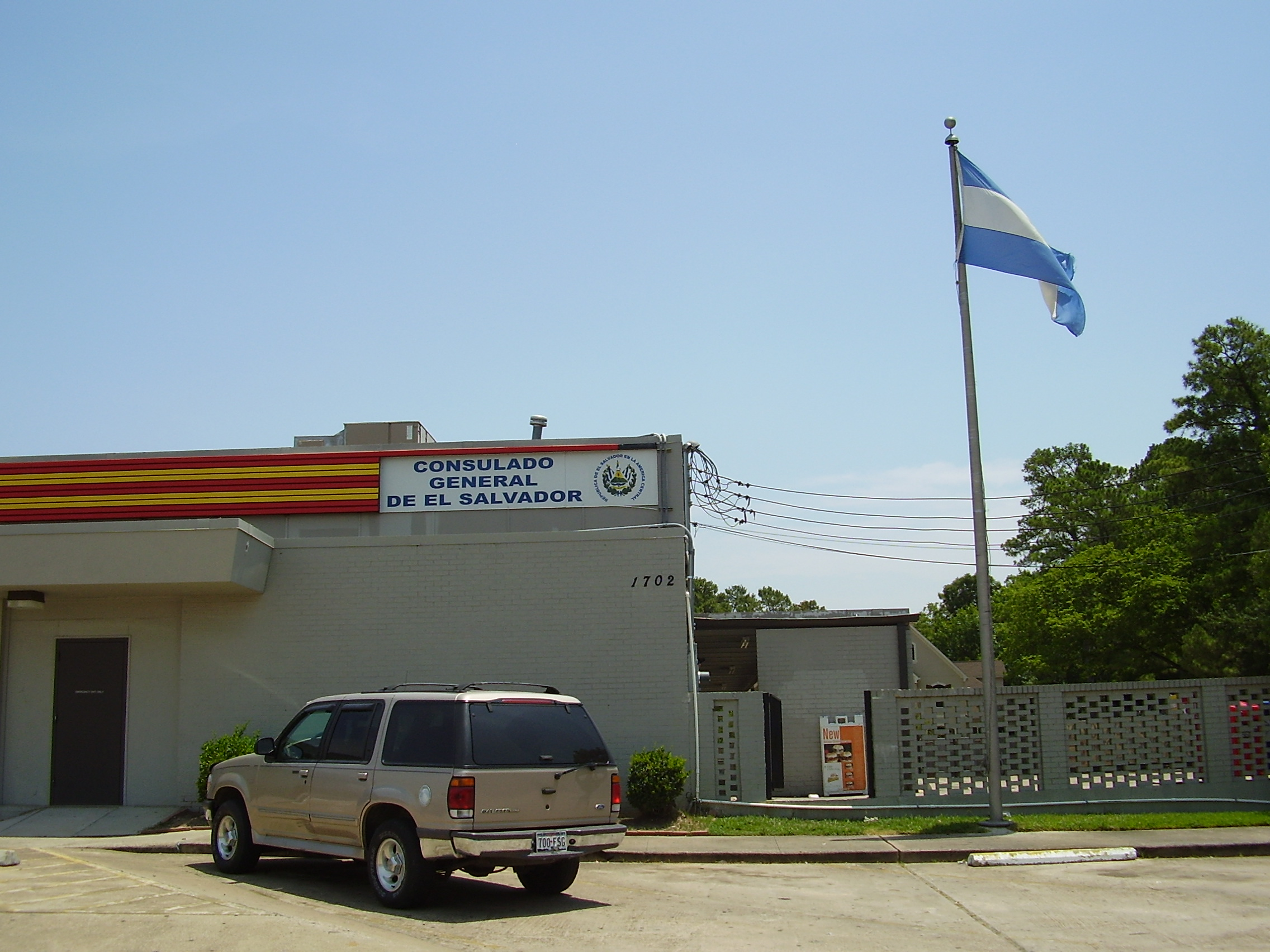 Consulate-General of El Salvador in Houston - 1702 Hillendahl Boulevard